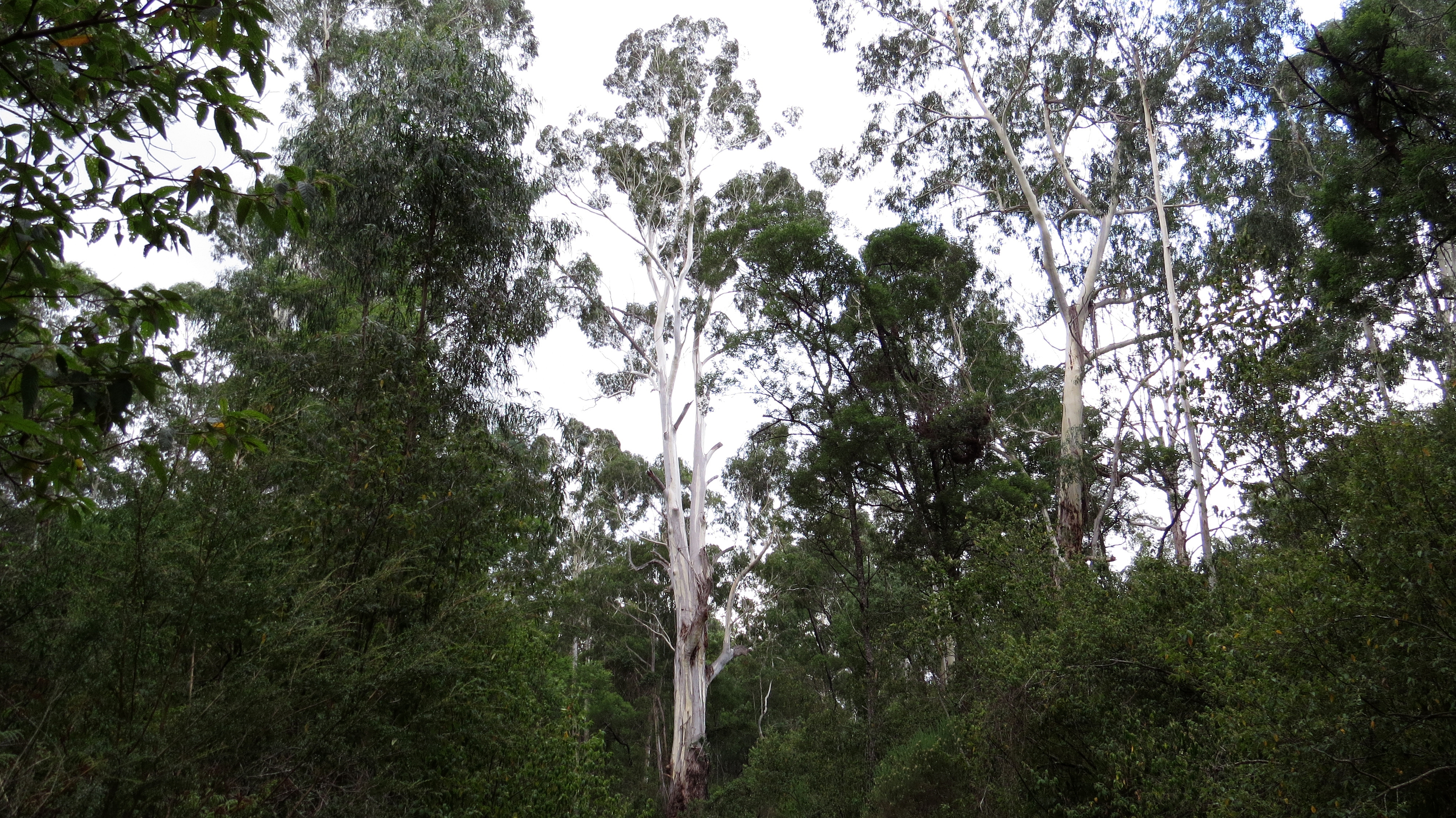 Jones Creek, Coopracambra National Park, Victoria, Australia, February 2014.